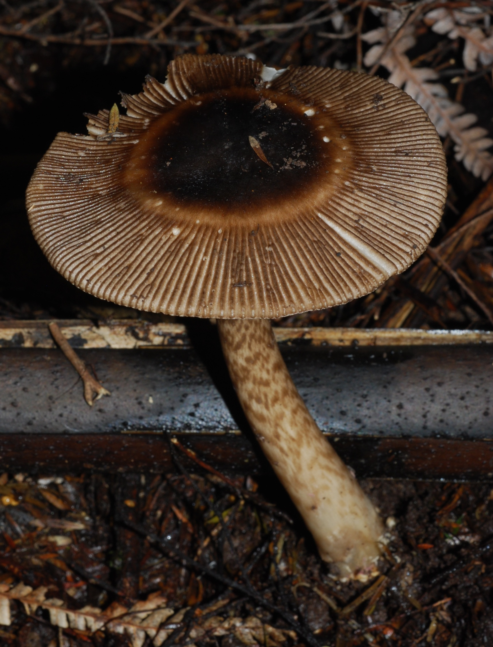 Amanita pekeoides G. S. Ridl. Location: Auckland, New Zealand Observation Notes: On leaf litter and soil under Kunzea ericoides and tree ferns in native New Zealand forest. For more information about this, see the observation page at Mushroom Observer.